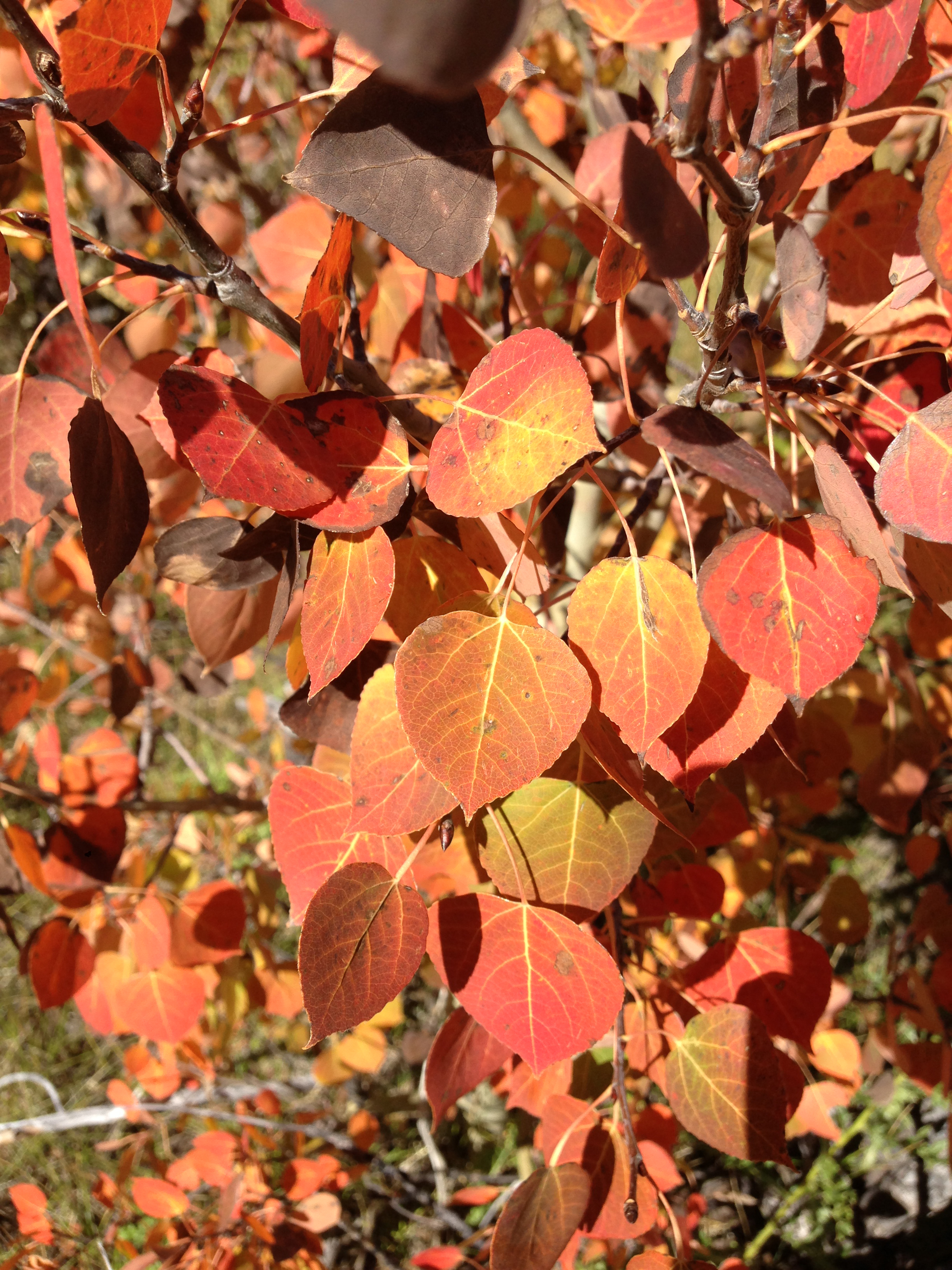 Aspens showing autumn foliage coloration in Lamoille Canyon, Nevada